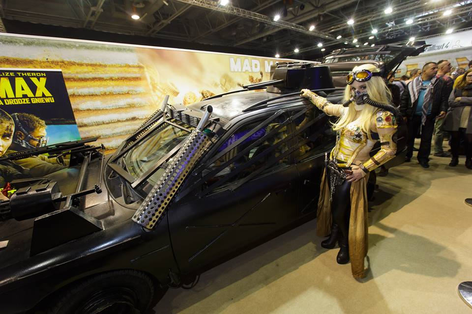 CENEGA Booth